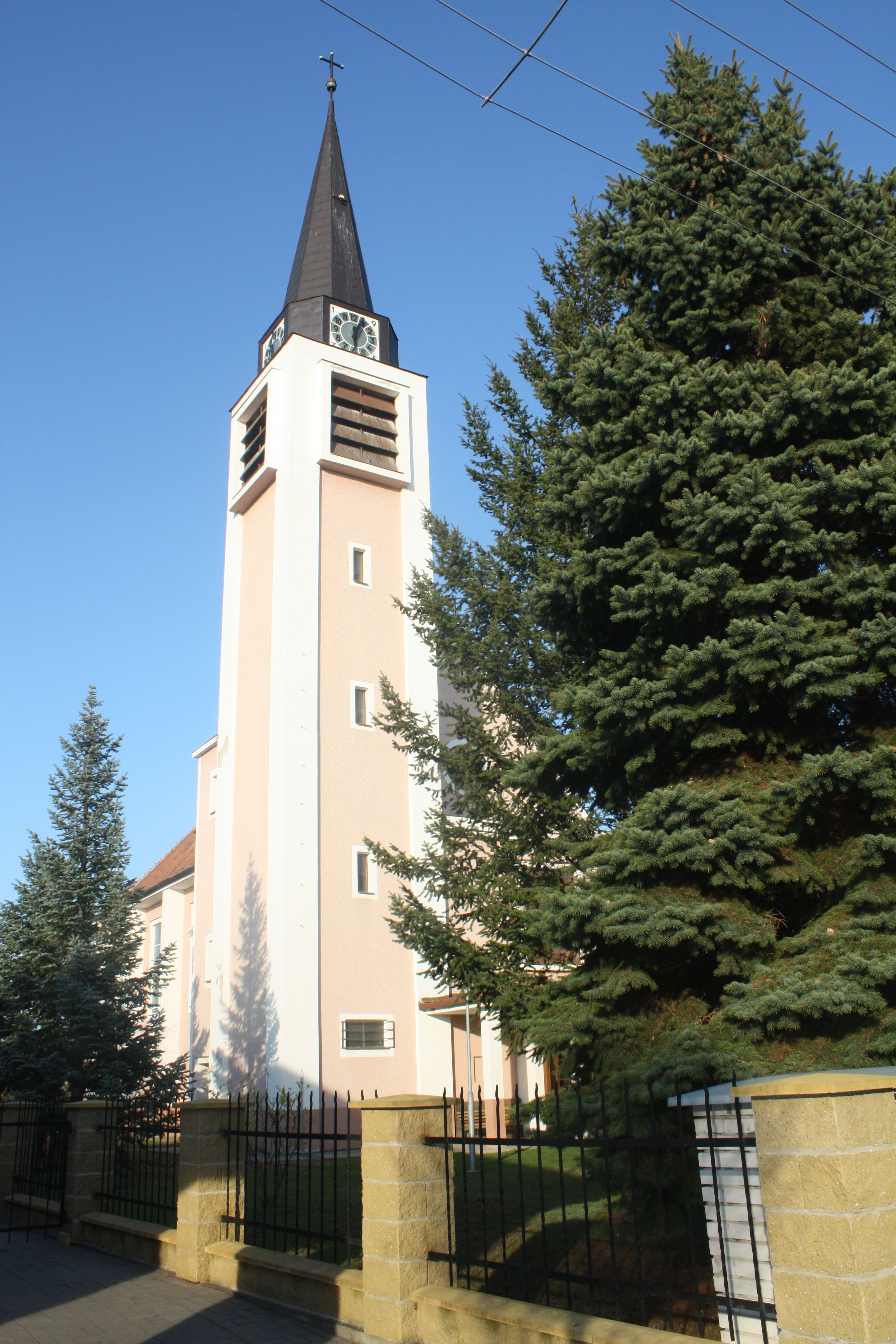 Sudoměřice (Hodonín district, Czech Republic) - church